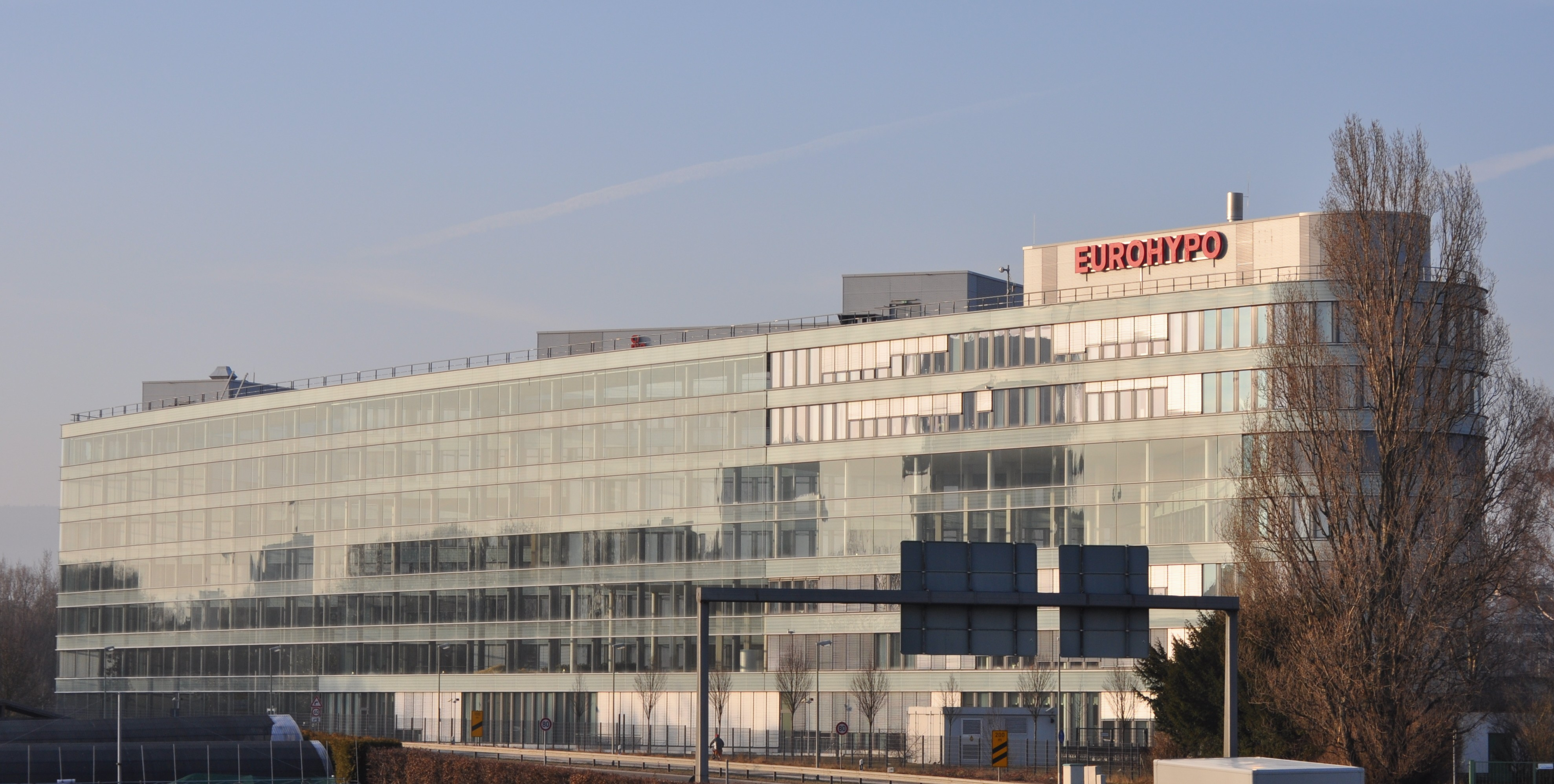 Headquarter of Eurohypo in Eschborn